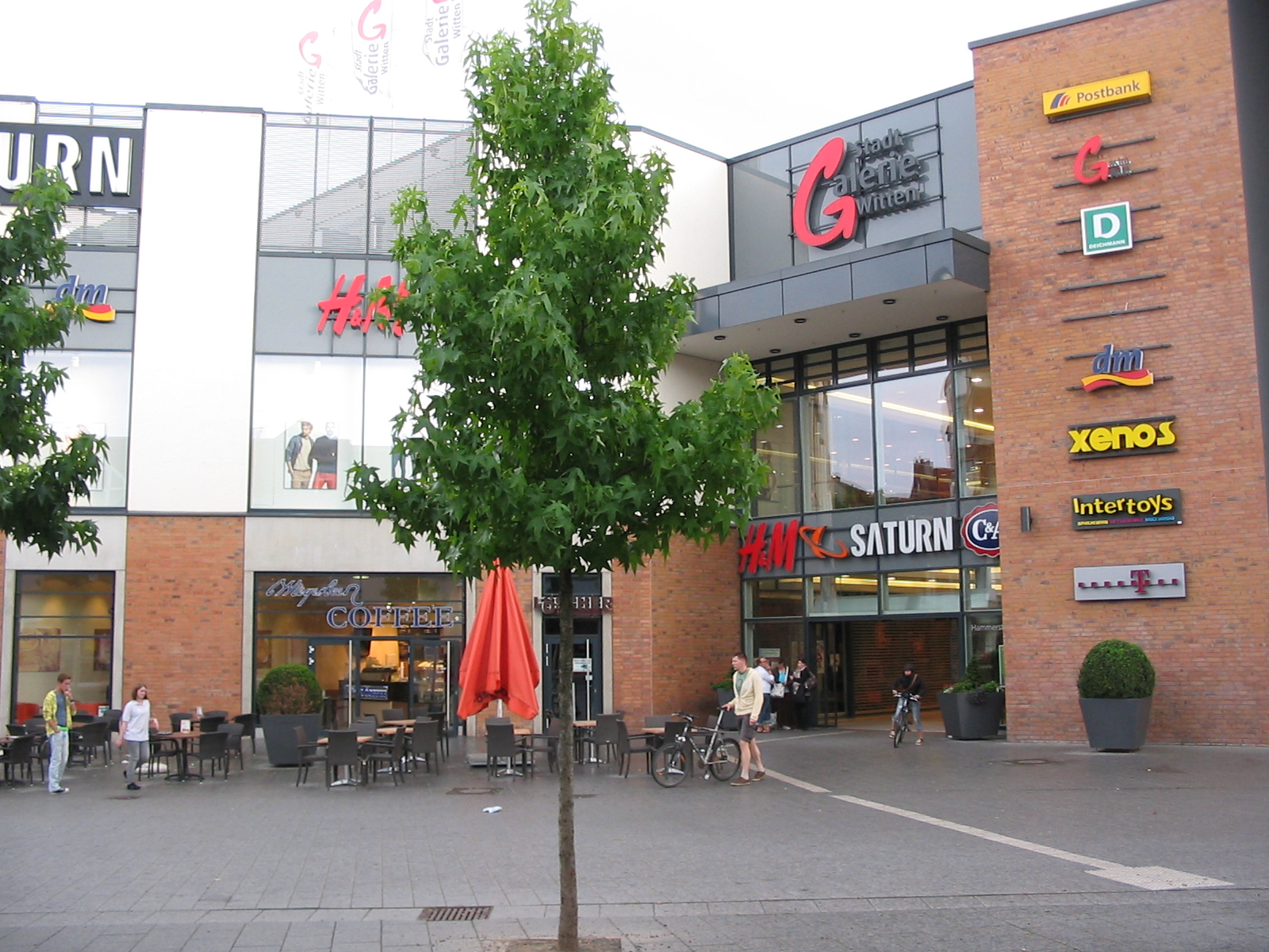 StadtGalerie Witten (shopping mall)